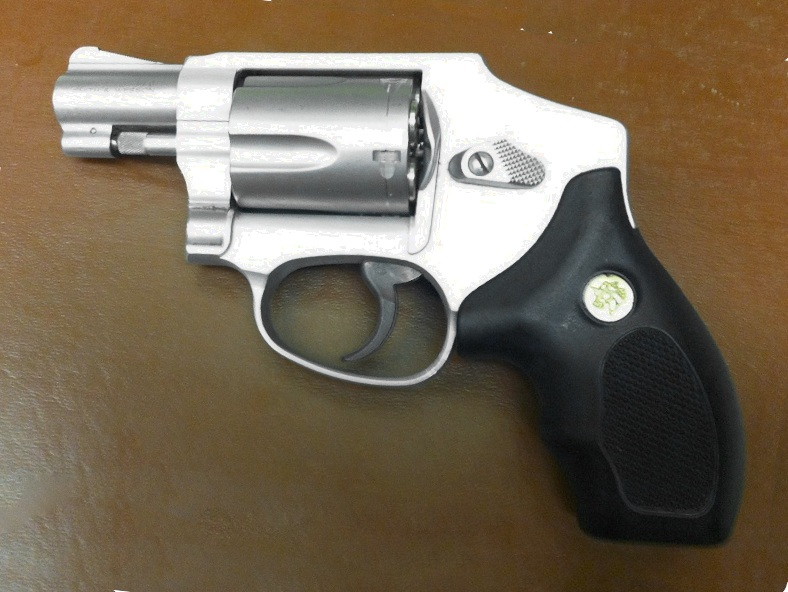 S&W Model 640 revolver, 38 Special, stainless steel with aluminium frame, DeSantis Clip Grip